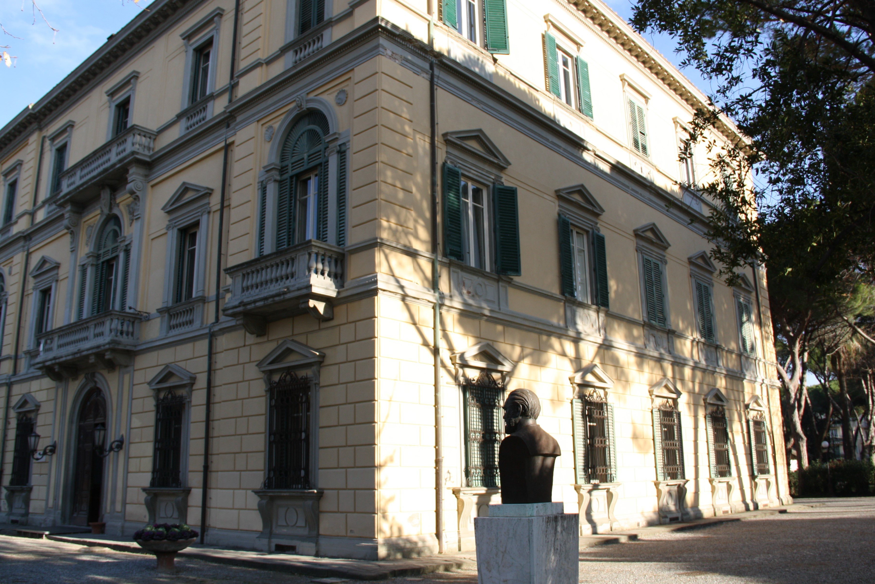 Italy, Livorno, Viale della Libertà, Villa Fabbricotti (Livorno).